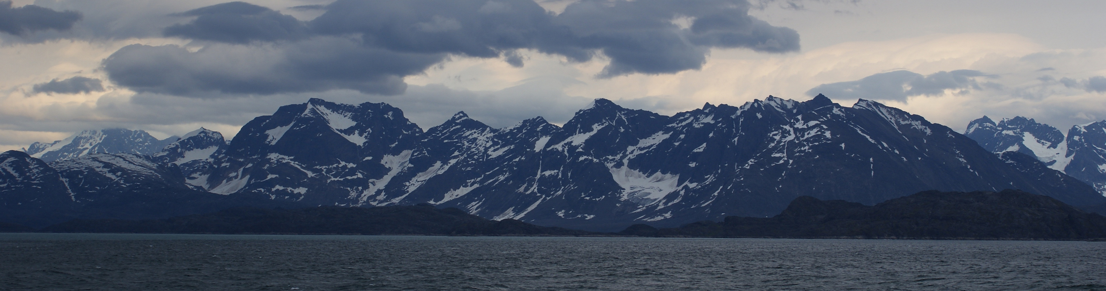 Mountains bounding Kangerlussuatsiaq Fjord from the south, where it empties into Davis Strait in central-western Greenland. Photographed from Sarfaq Ittuk of Arctic Umiaq Line